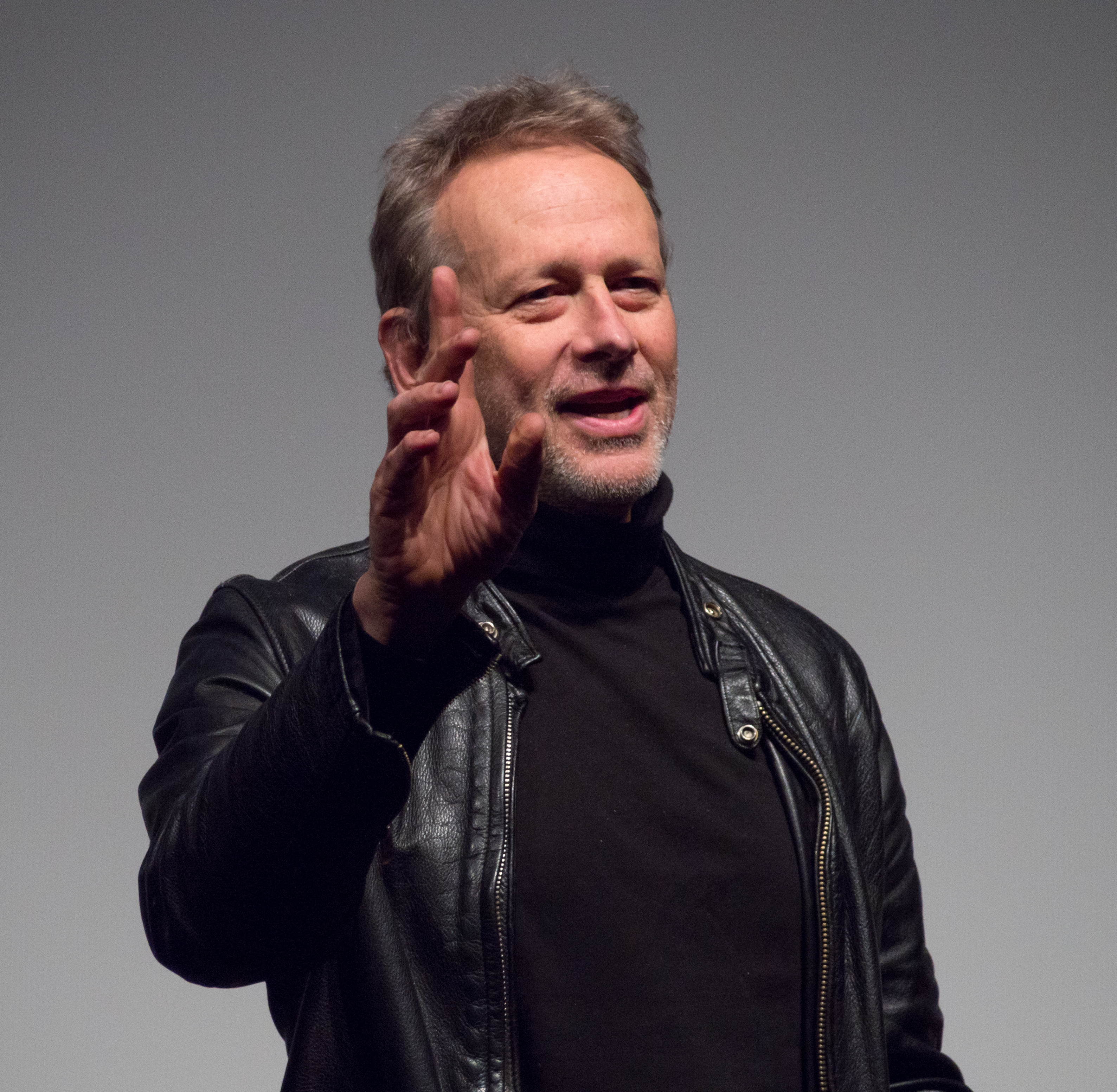 Alexandre Rockwell during the In the Soup (1992) panel at the 2018 Tribeca Film Festival.